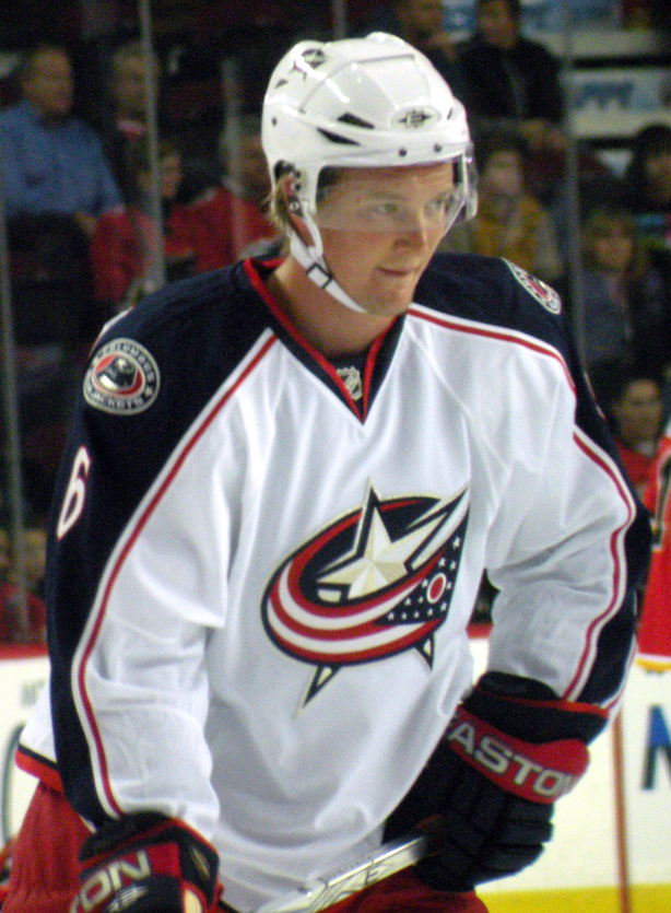 Columbus Blue Jackets defenceman Anton Stralman prior to a National Hockey League game against the Calgary Flames, in Calgary.